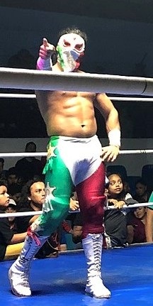 Wrestler Flamita in Arena Querétaro March 21 2018